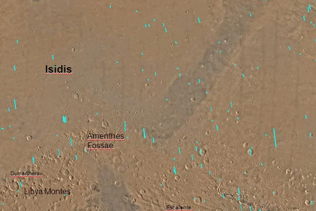 Map of Amenthes, Mars with labels. The small, colored rectangles represent image footprints for the narrow angle camera on the Mars Global Surveyor. Some are about 1 mile wide, the otheers are about 2 miles wide. The map was made by the U.S. Geological survey for NASA.